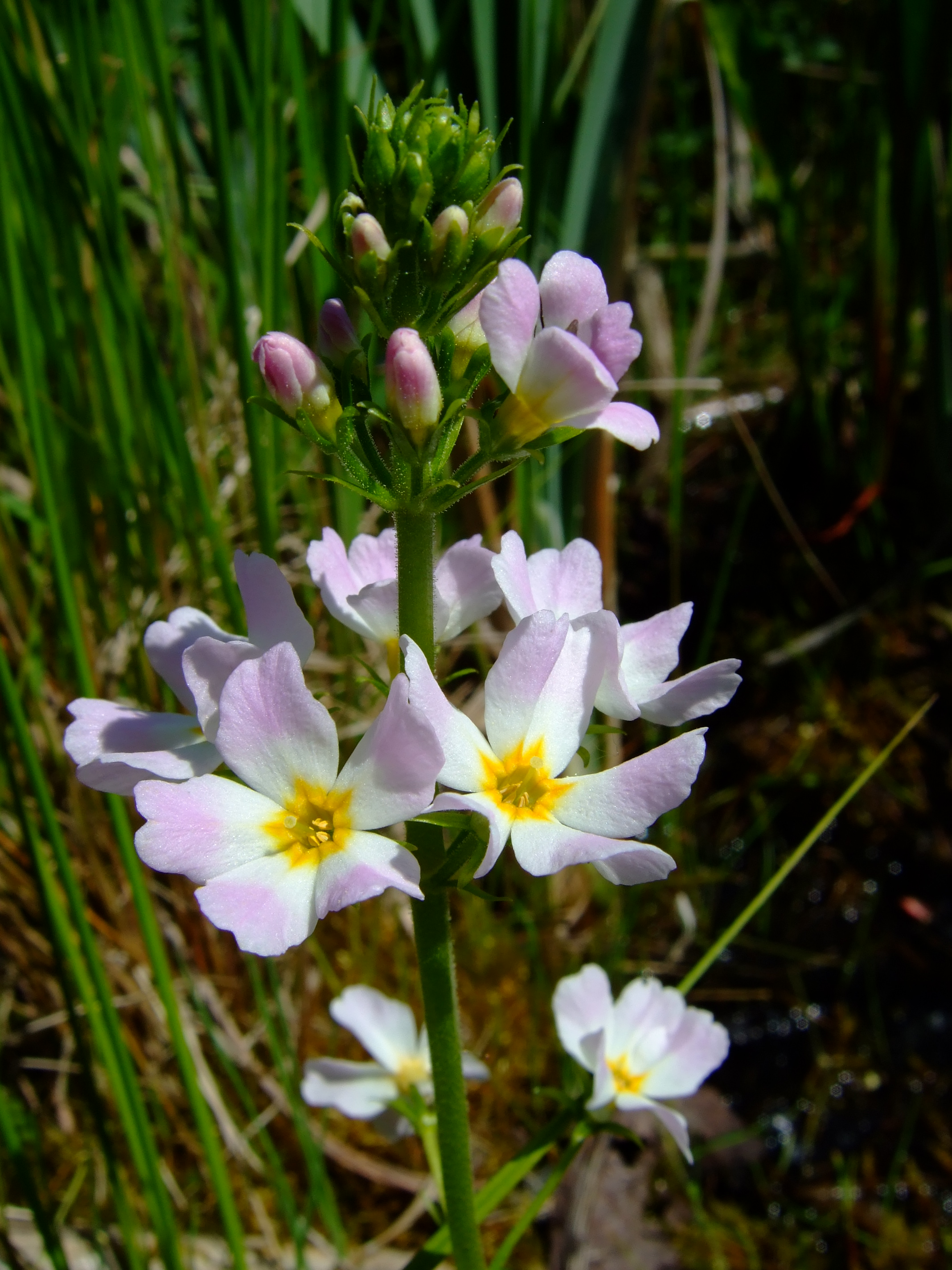 Water Violet in Kirchwerder, Hamburg.